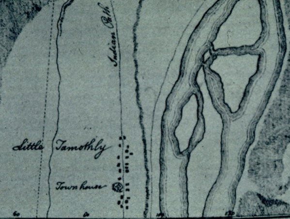 Map showing the Cherokee village of Tomotley, which was once located along the Little Tennessee River in what is now Monroe County, Tennessee, United States. The village's townhouse and a road ("Indian Path") are labeled.